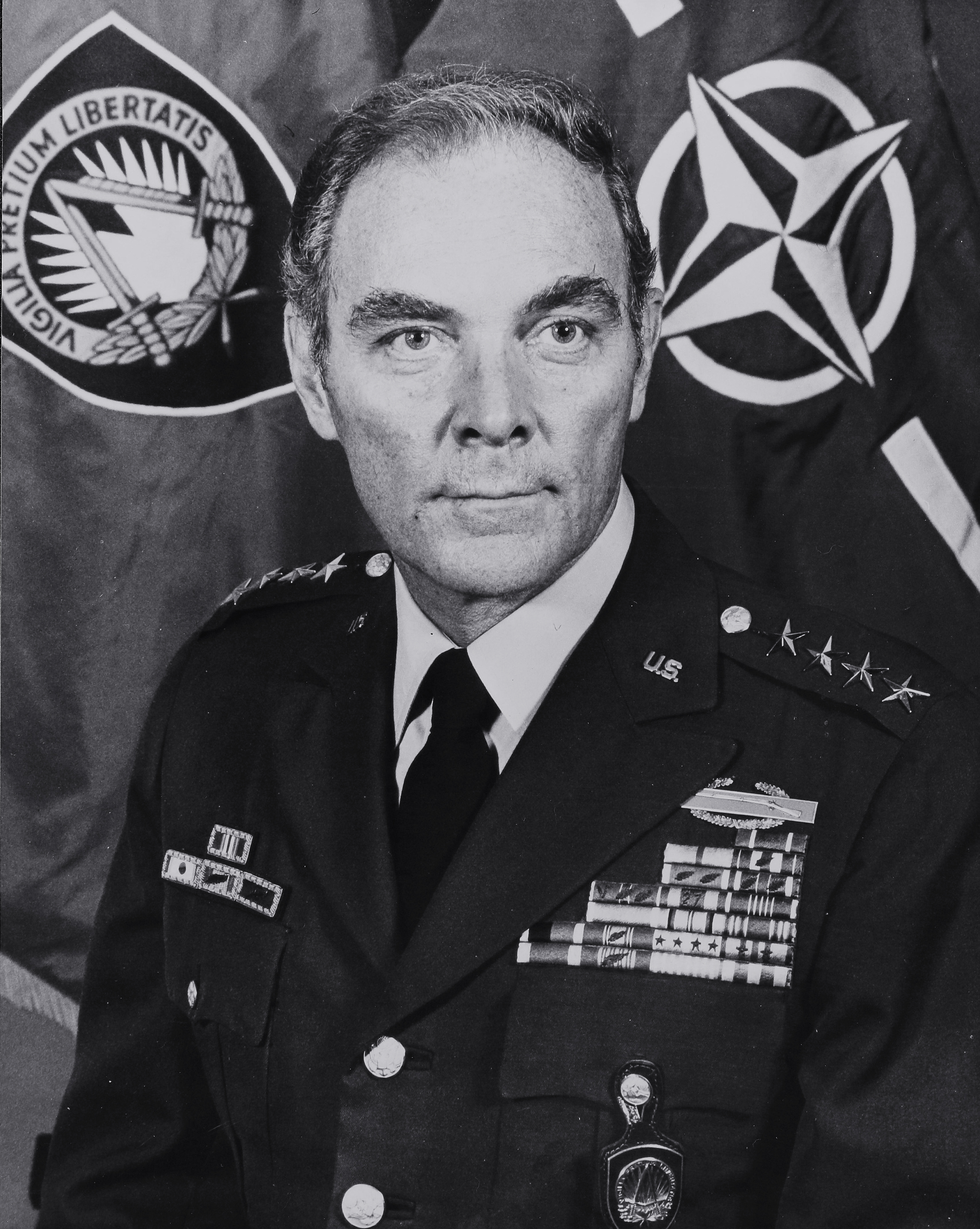 General Alexander M. Haig, Jr., USASupreme Allied Commander, Europe and Commander in Chief, U.S. European Command